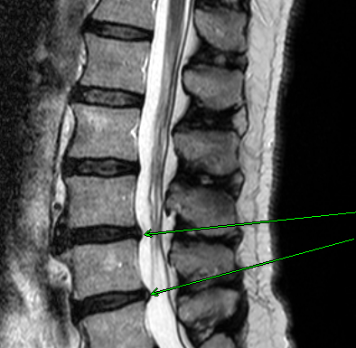 Disc protrusion